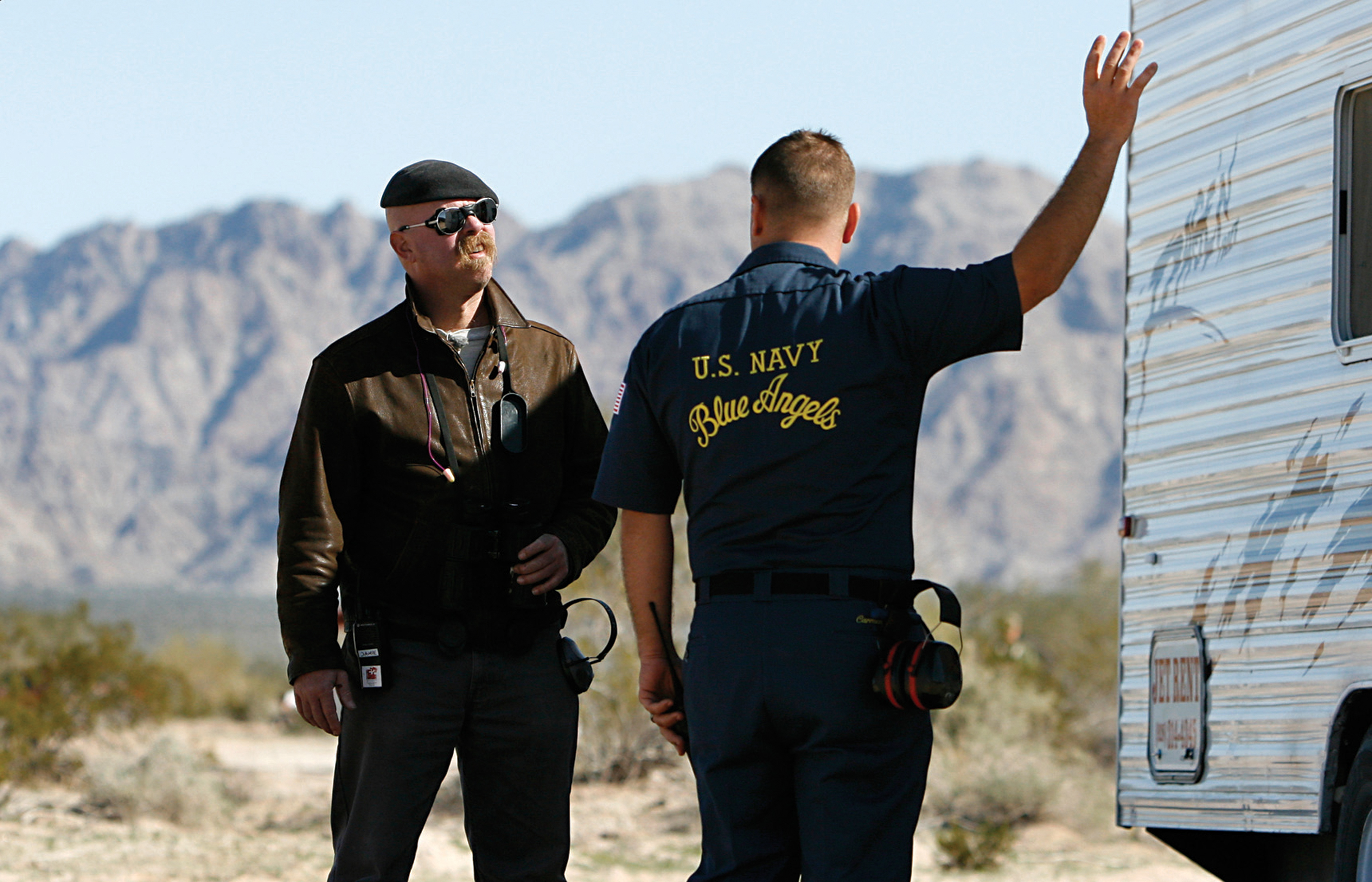 Mythbusters co-host Jamie Hyneman listens to Petty Officer 3rd Class Peter Carnicello, of the Blue Angels public affairs office, as he explains the effects of a sonic boom on a trailer Feb. 19, 2009, on the Barry M. Goldwater Range east of the Marine Corps Air Station in Yuma, Ariz. The Blue Angels invited the popular Discovery Channel program to test the myth that a sonic boom, caused when aircraft travel faster than the speed of sound, will break glass. The episode, filmed February 2009, is scheduled to air June 10, 2009, at 9 p.m. EST on The Discovery Channel.